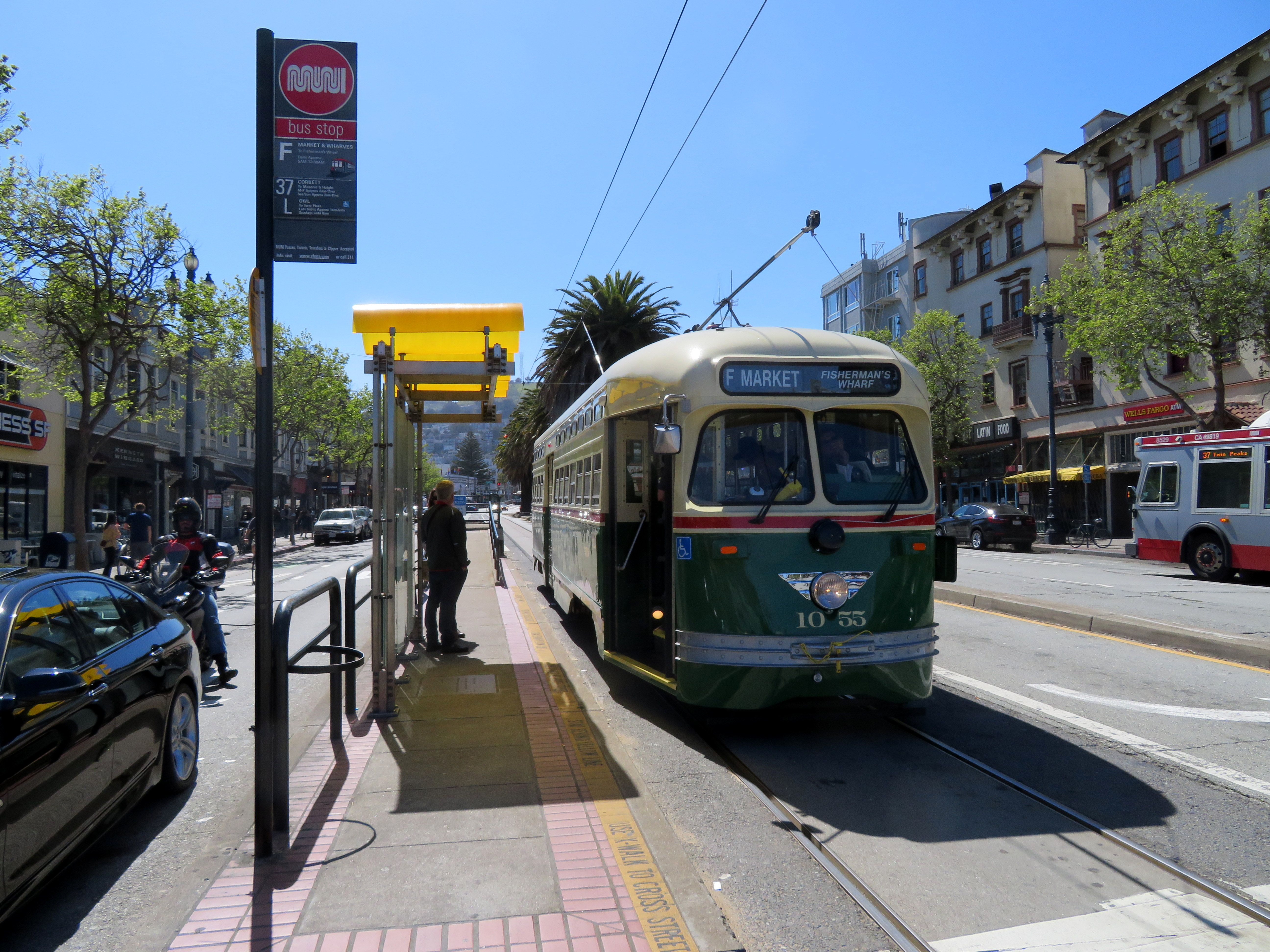 Muni 1055 inbound at Market and Noe station in April 2018